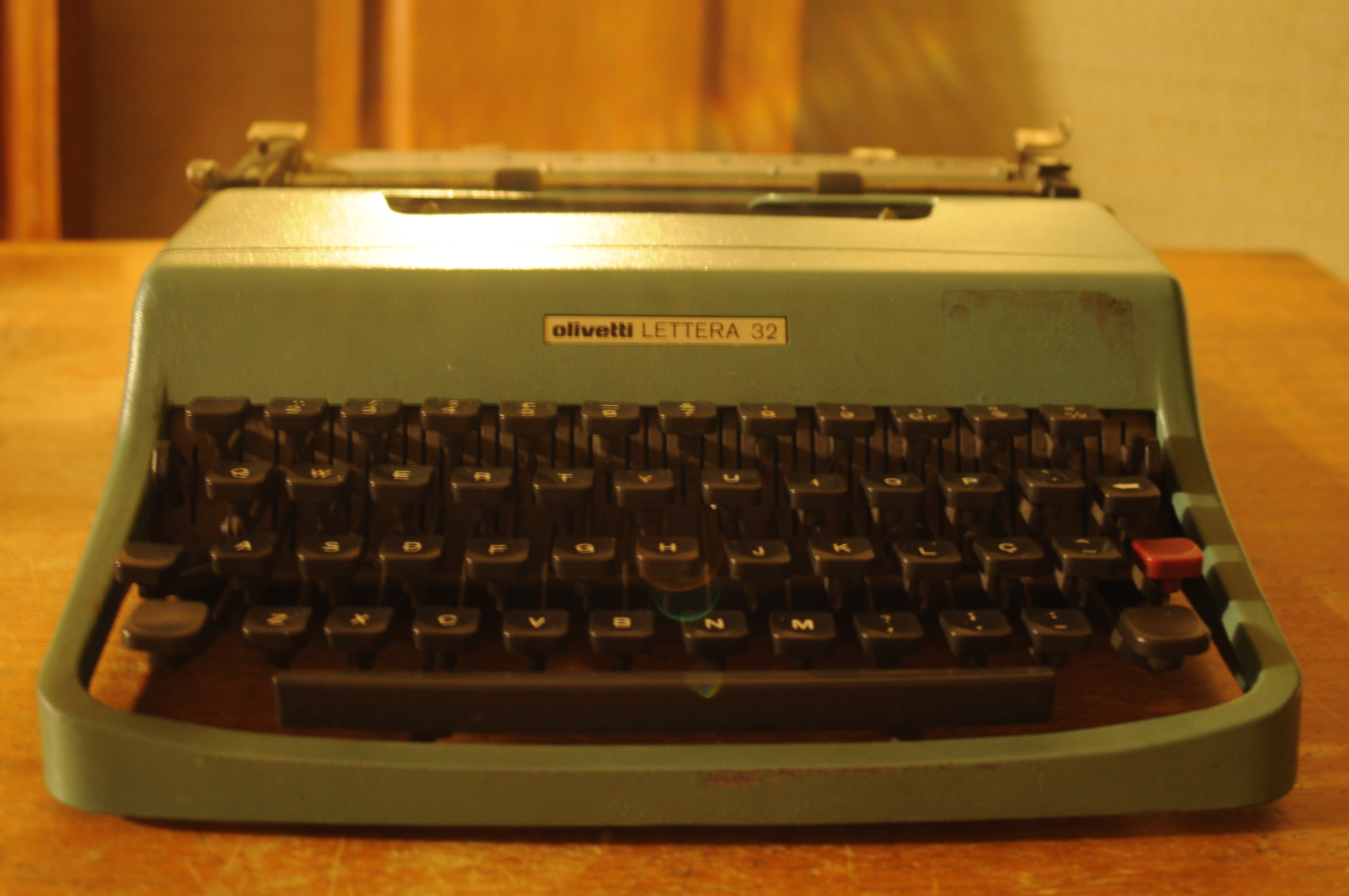 An Olivetti Lettera 32 typewriter [Brazilian Portuguese Model].